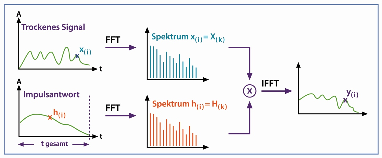 The Graphic was made for the Article about Convolution (Audio Engineering).